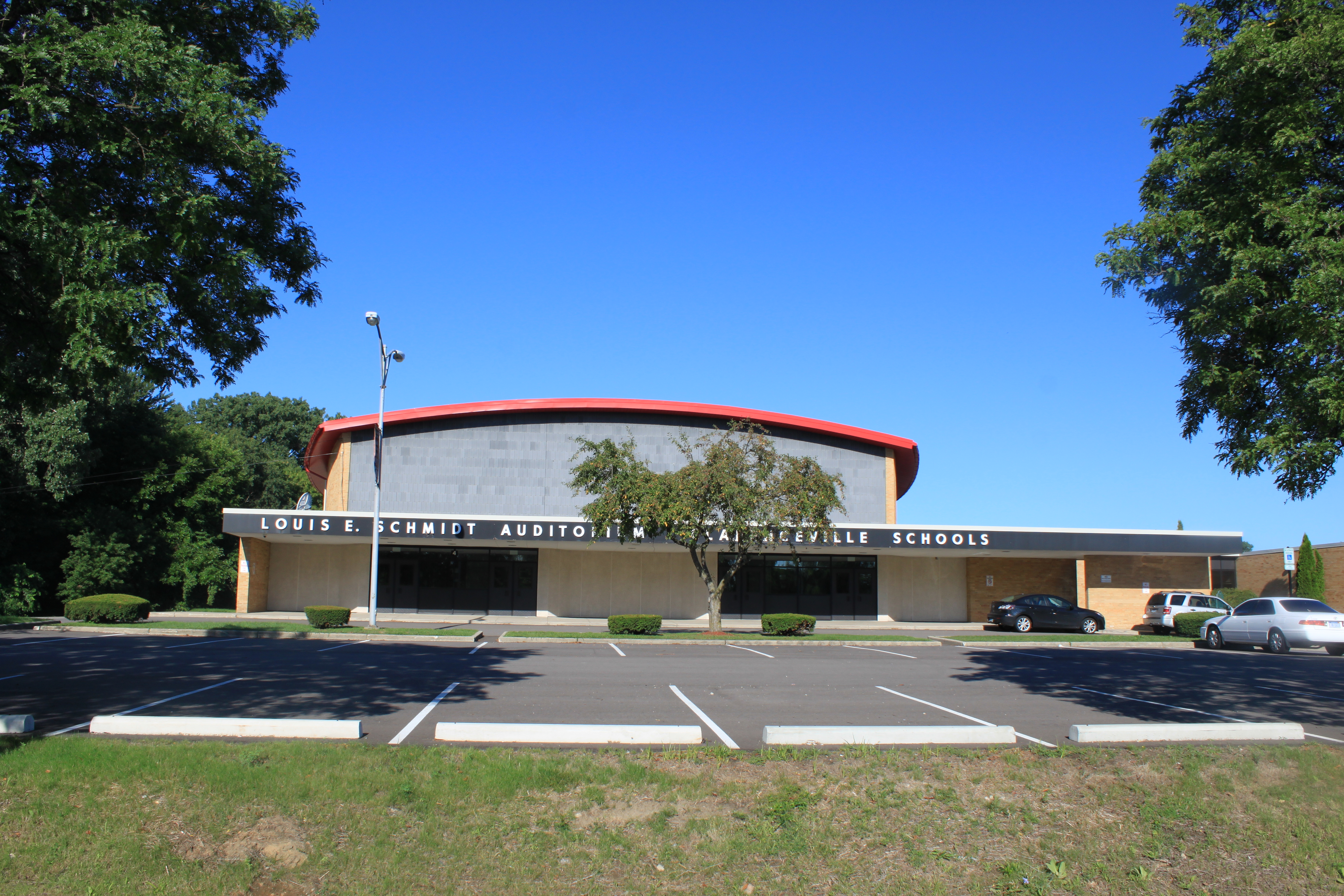 Louis E. Schmidt Auditorium — 20155 Middlebelt Road, Livonia, Michigan. The building is a Registered Michigan State Historic Site.